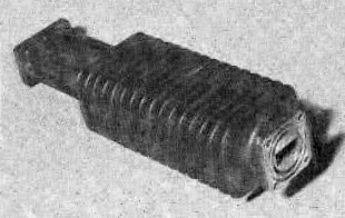 A high power microwave dummy load used for testing waveguide systems. A dummy load is a waveguide termination that absorbs all the microwave power applied to it without reflecting any, converting the microwaves to heat. It has heatsink fins to dissipate the heat. The flange visible on the righthand side is attached to a waveguide.